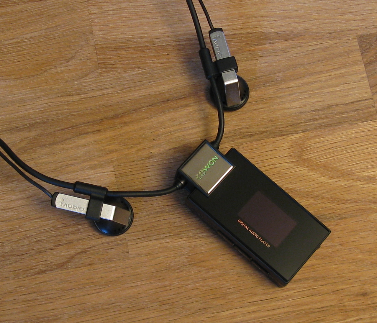 Cowon iAUDIO T2 Digital Audio Player.